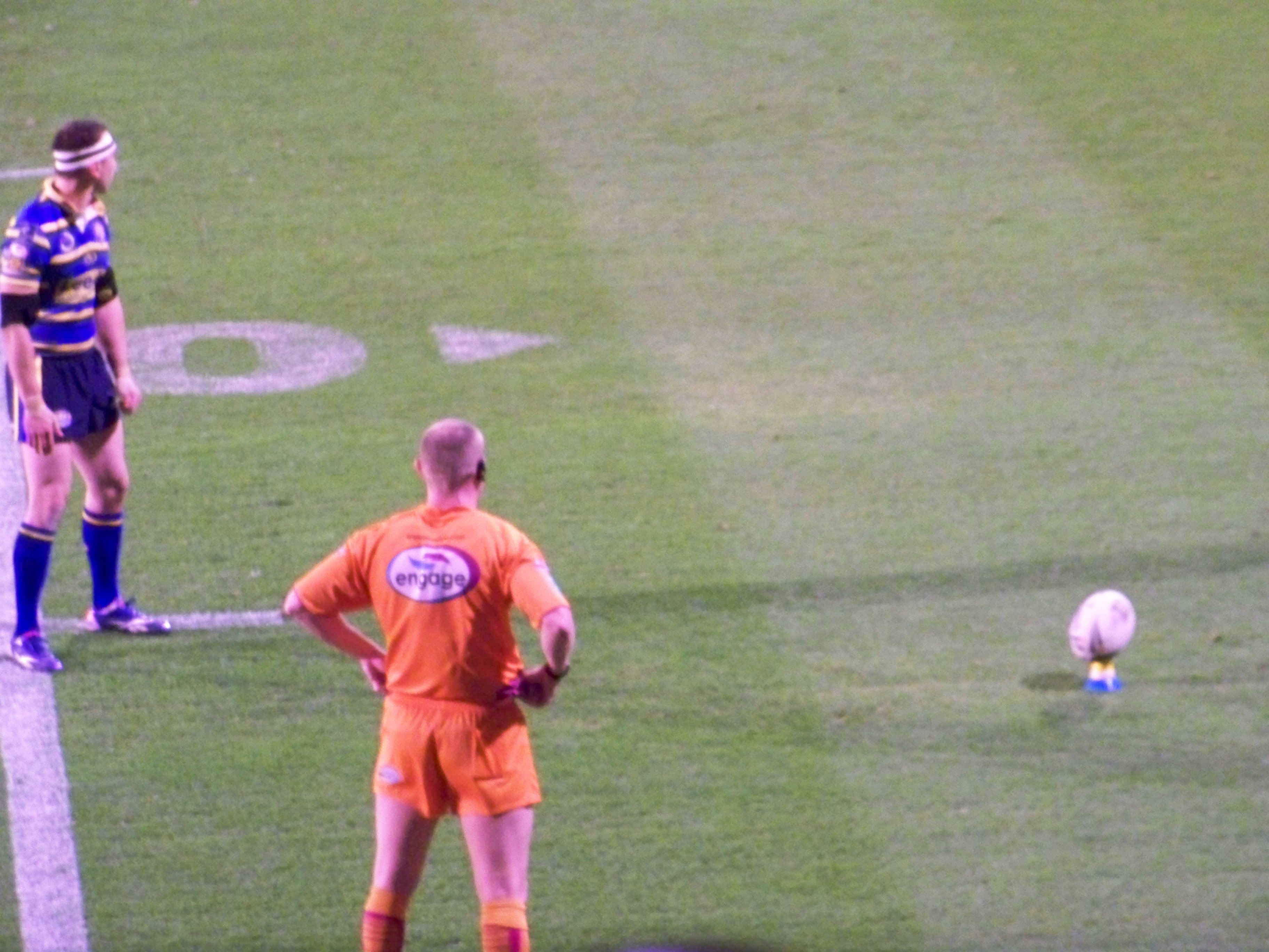 Kevin Sinfield takes a conversion during the Leeds Rhinos vs Catalan Dragons game (Superleague playoff semi final) on Friday 2nd October 2009.